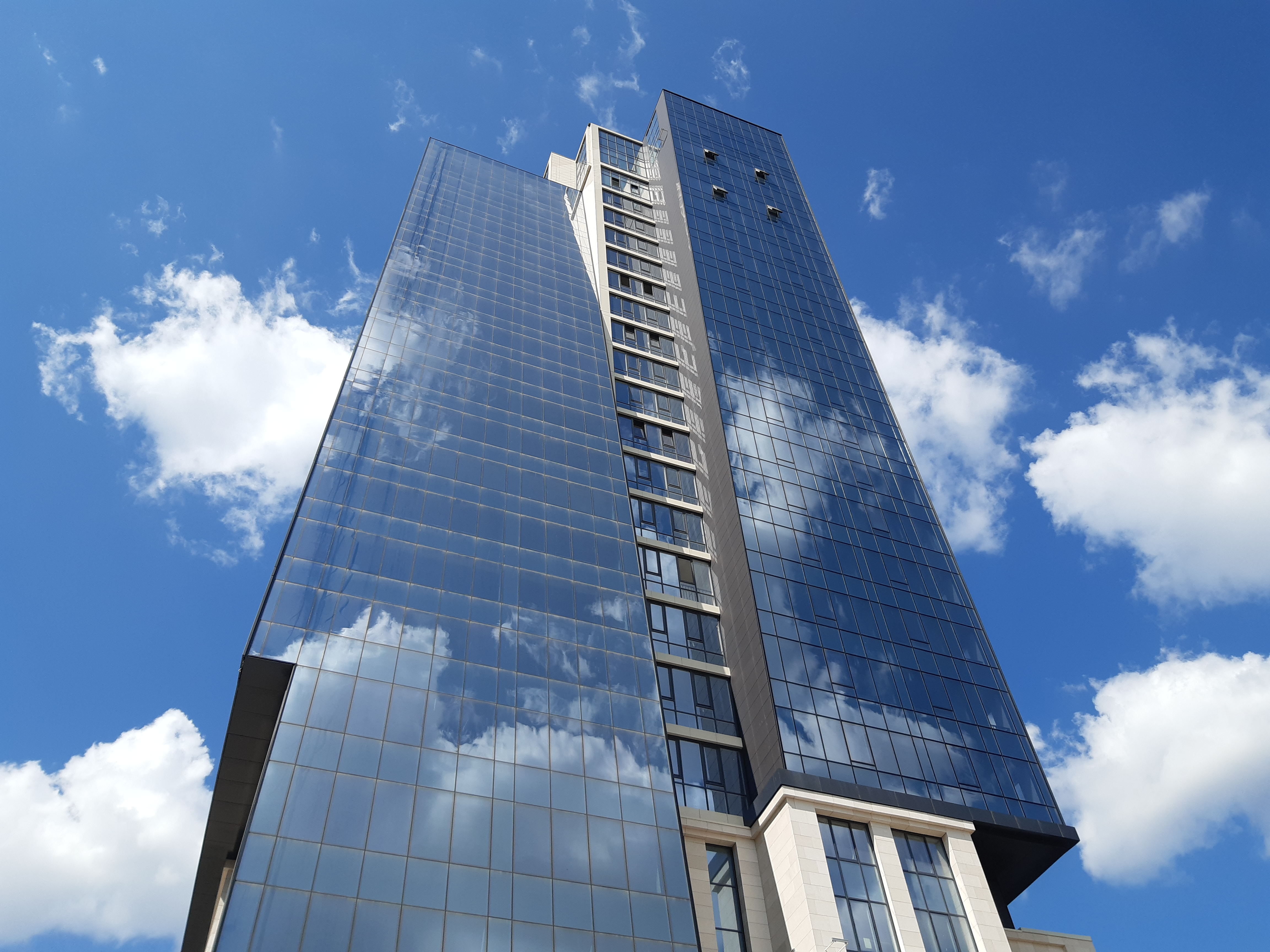 Prime House is a housing estate in Novosibirsk.